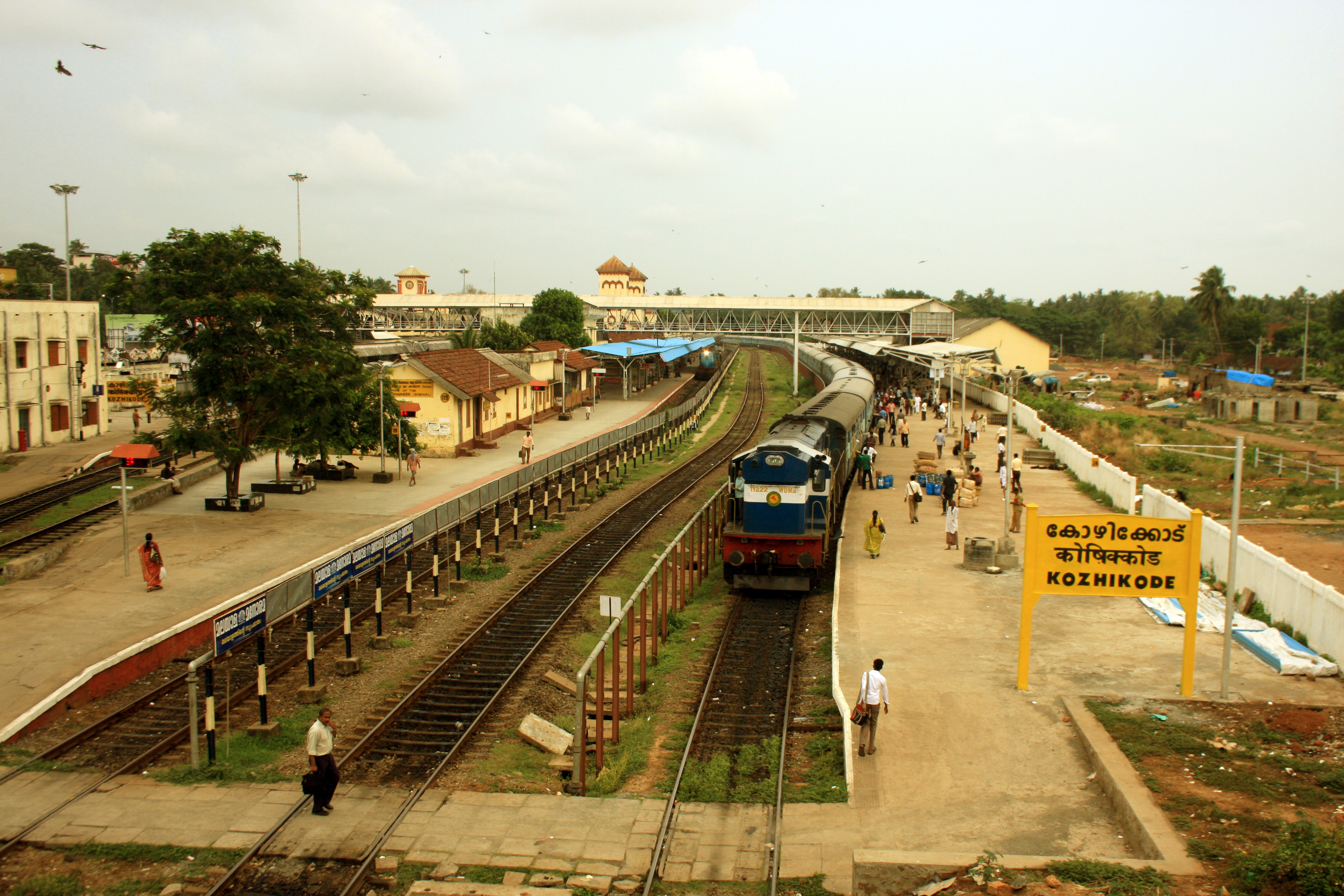 Kozhikode Railway Station is the largest railway station in the city of Kozhikode, India. The station has four platforms and two terminals.